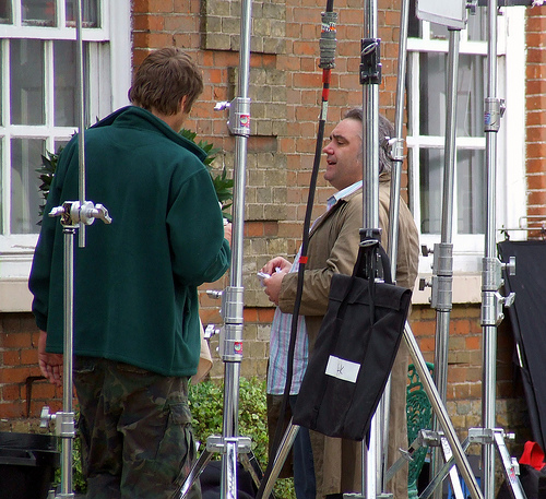 Swaffham Tony Slattery takes a well earned break from filming the second series of Kingdom